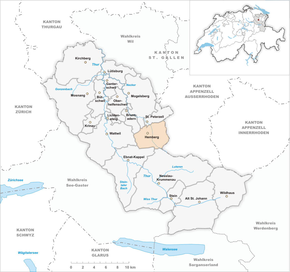 Municipality Hemberg